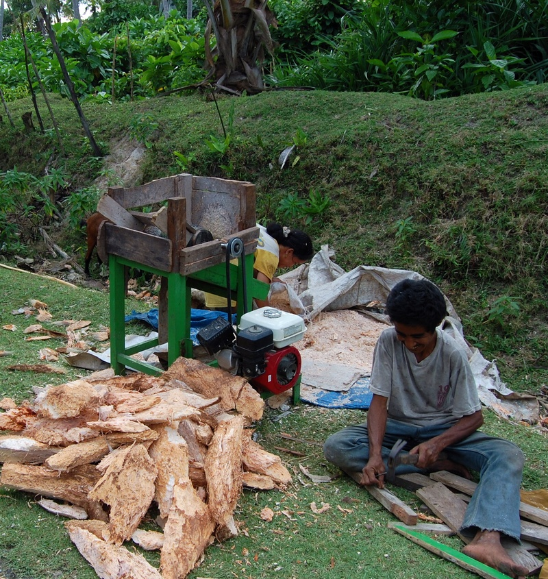 Crushing the pith of sagopalm; Simeulue, IndonesiaBahasa Indonesia: Memarut empulur sagu; Teupah Selatan, Simeulue